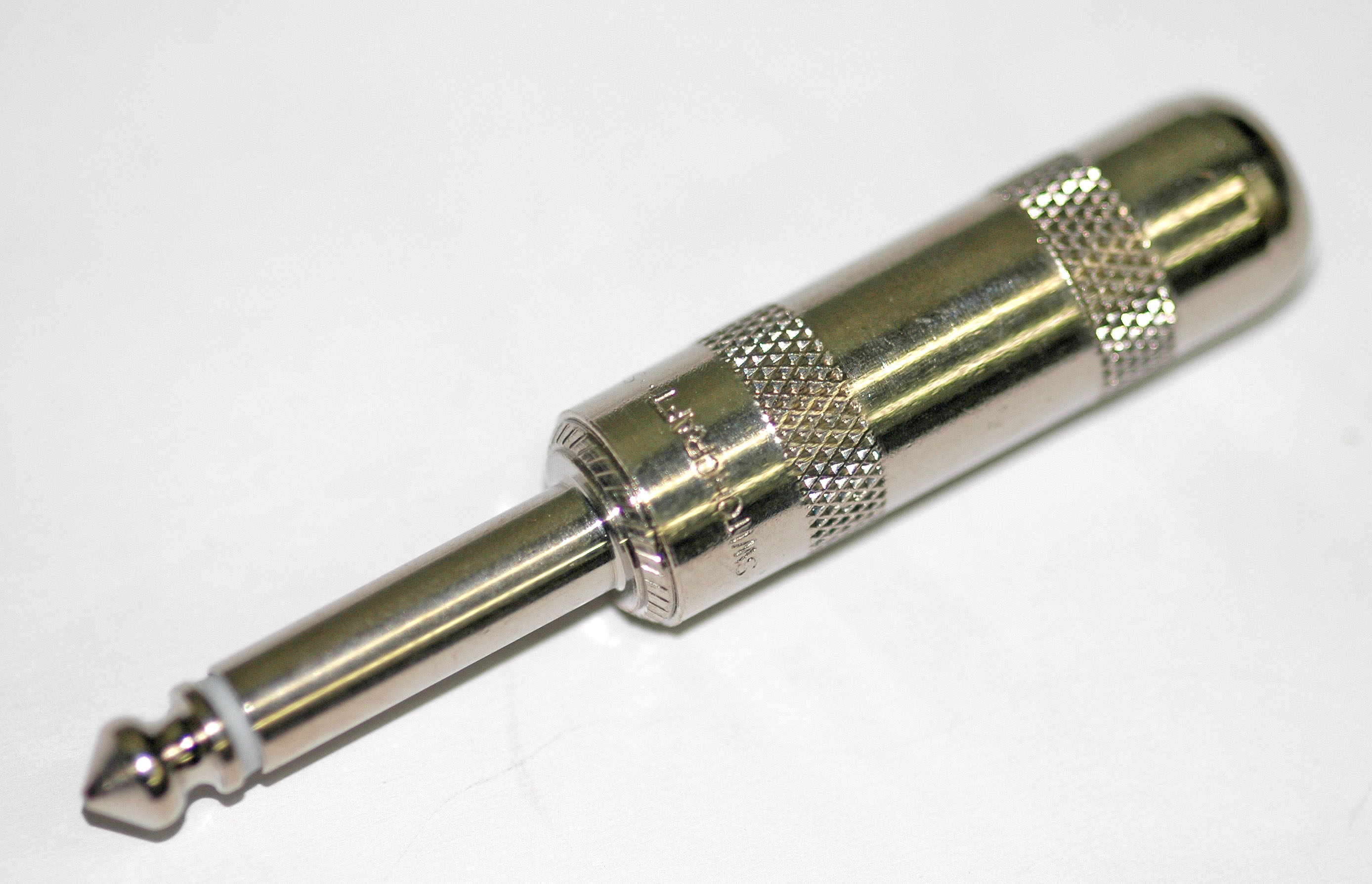 1/4" mono TS connector / plug